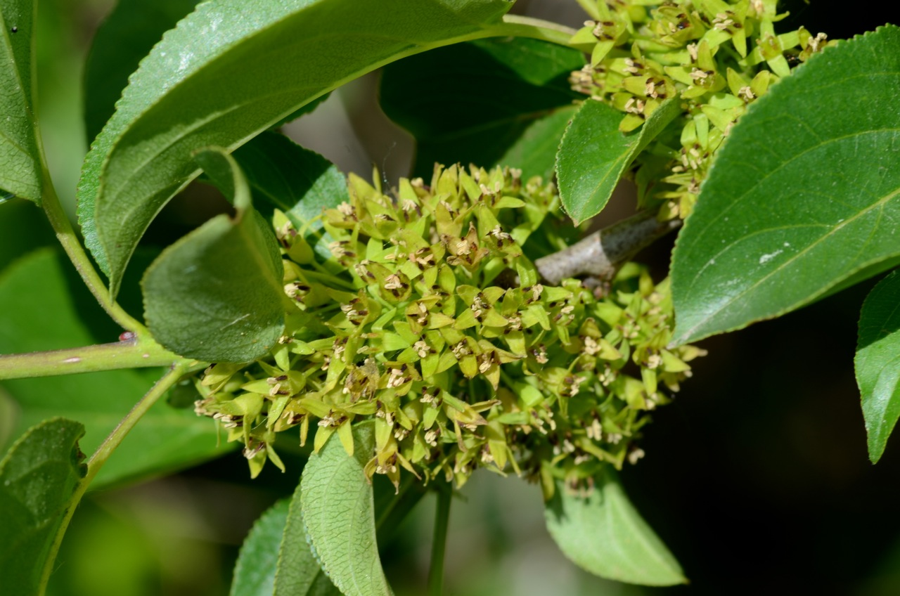 Rhamnus cathartica